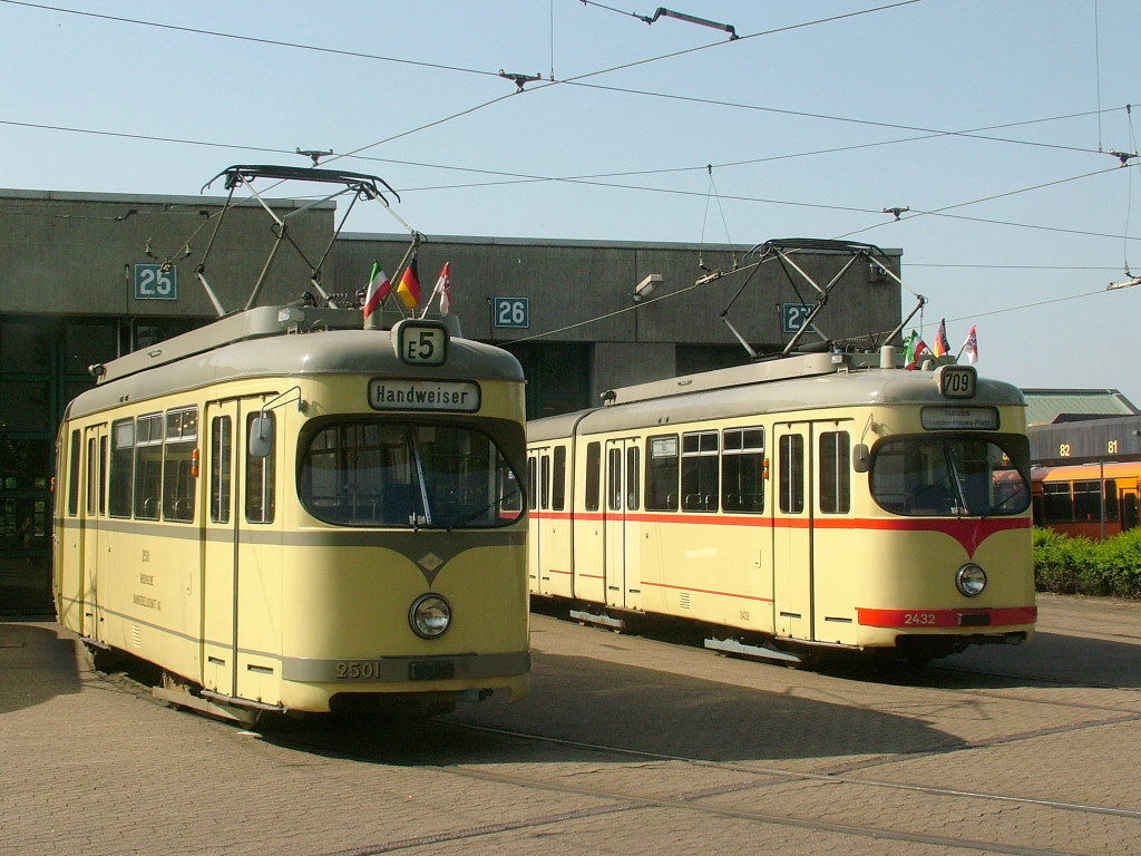 Tramcars 2501 and 2432 (type GT6) of the Rheinbahn in Düsseldorf-Heerdt, Germany